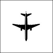 This is a version of the Jet Set Zero logo, modified for the express purpose of Wikimedia Commons.